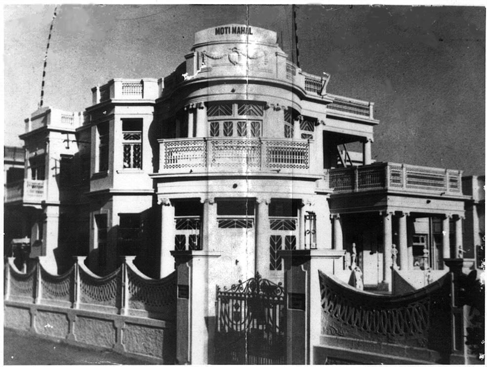 This photo of Moti Mahal was taken in the 1940s, when the actual owners of this property still lived there.